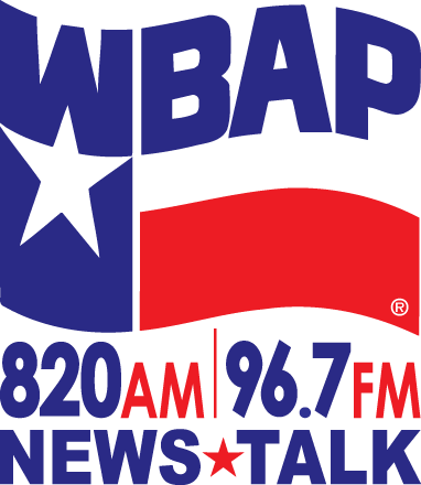 Former logo of the radio station WBAP used between 15 March 2010 and 7 October 2013.